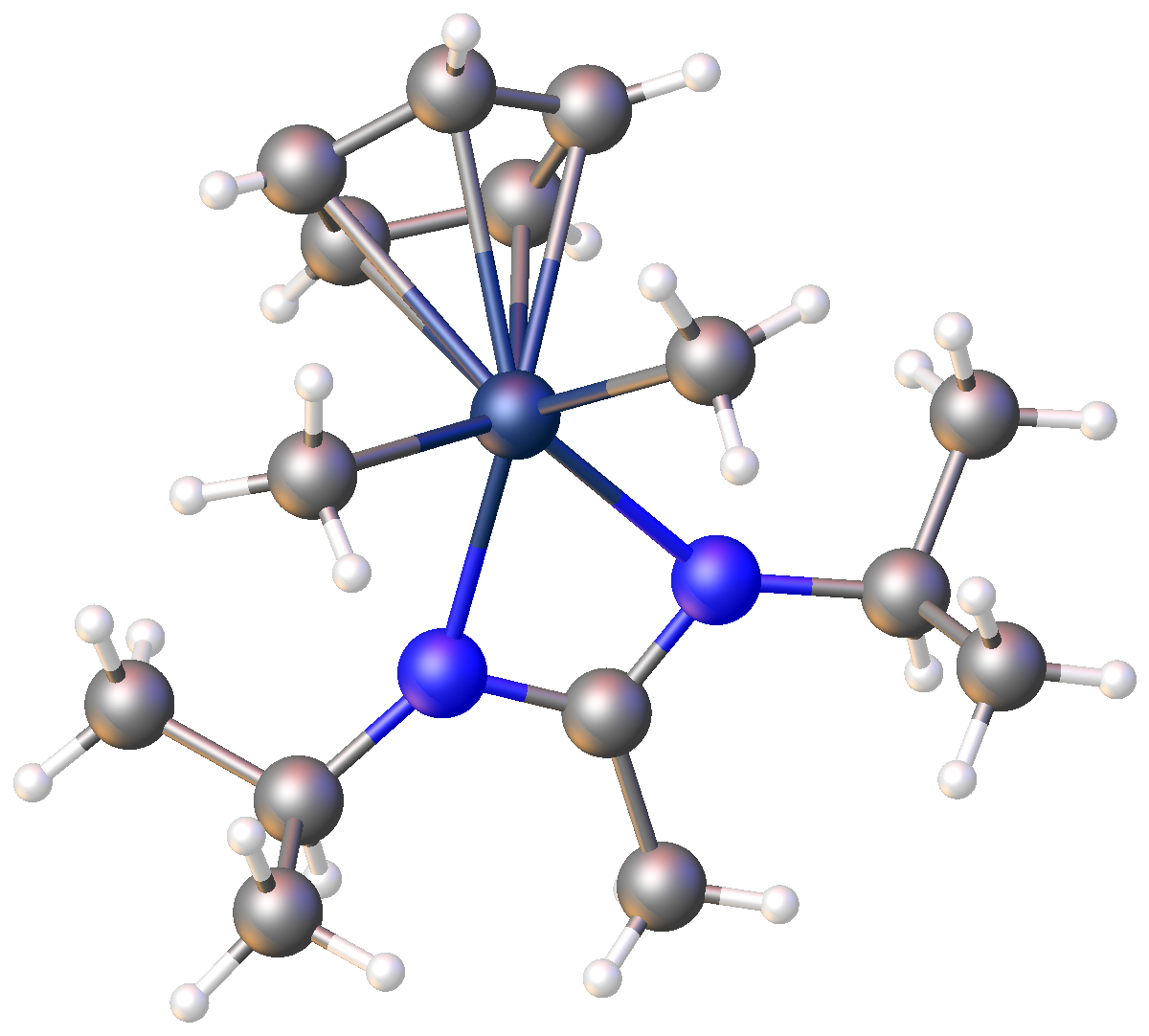 structure of CpZrMe2(iPr2amidate)